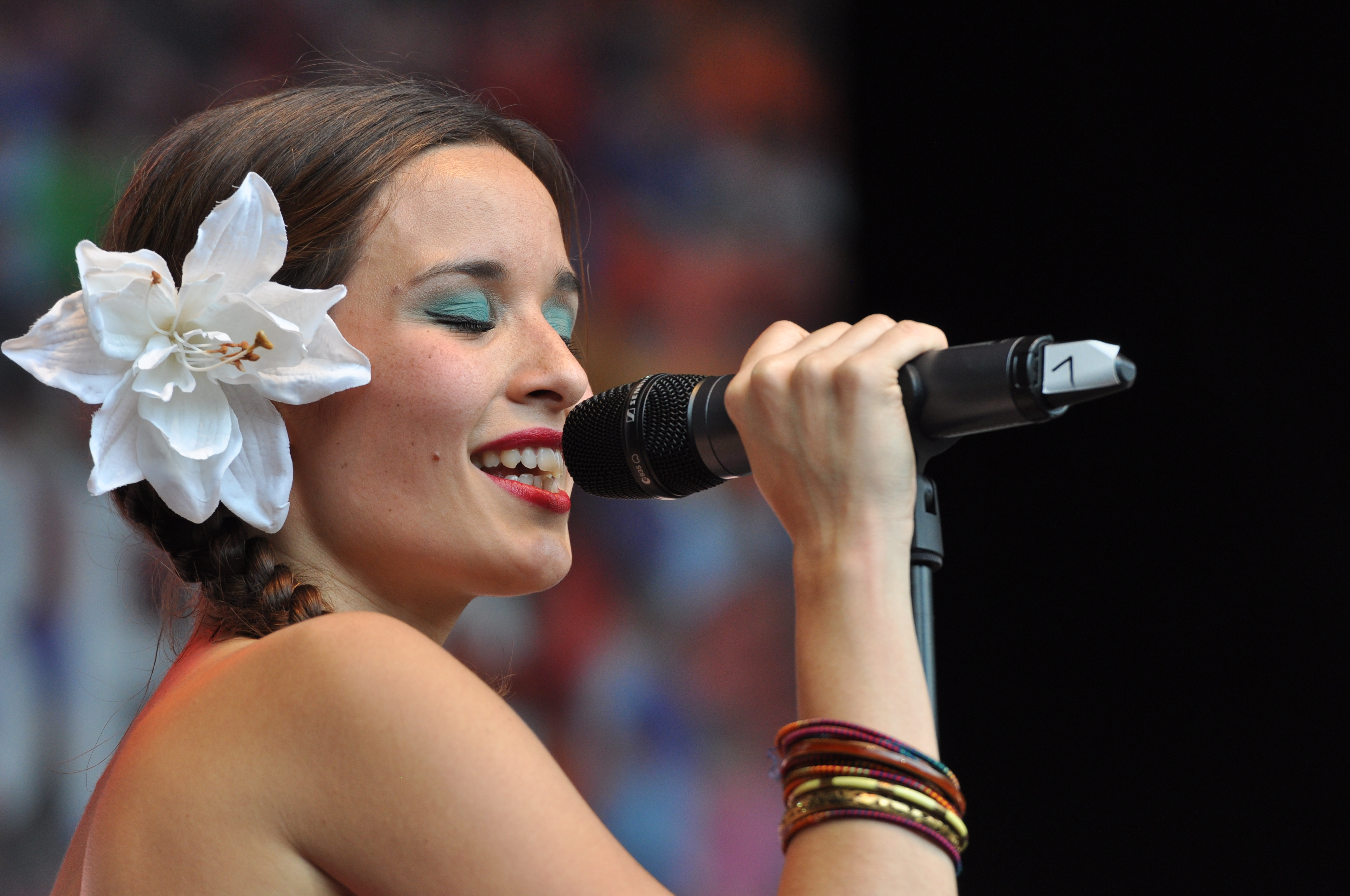 Monsieur Periné (Colombia), appearance at the 39th music festival "Bardentreffen" 2014 in Nuremberg, Germany, Schuett Isle stage